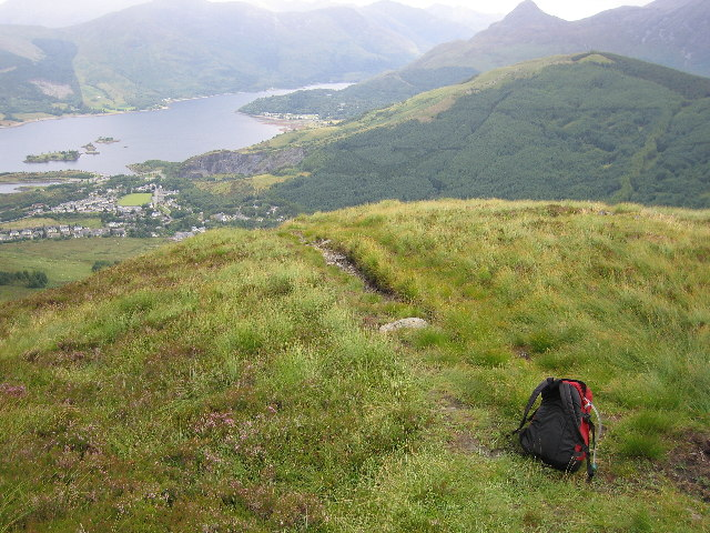 Path to Sgorr Dhearg. The path leading up to Sgorr Dhearg (summit 1024m) overlooking South Ballachulish and across to the Mammores and Pap of Glencoe.